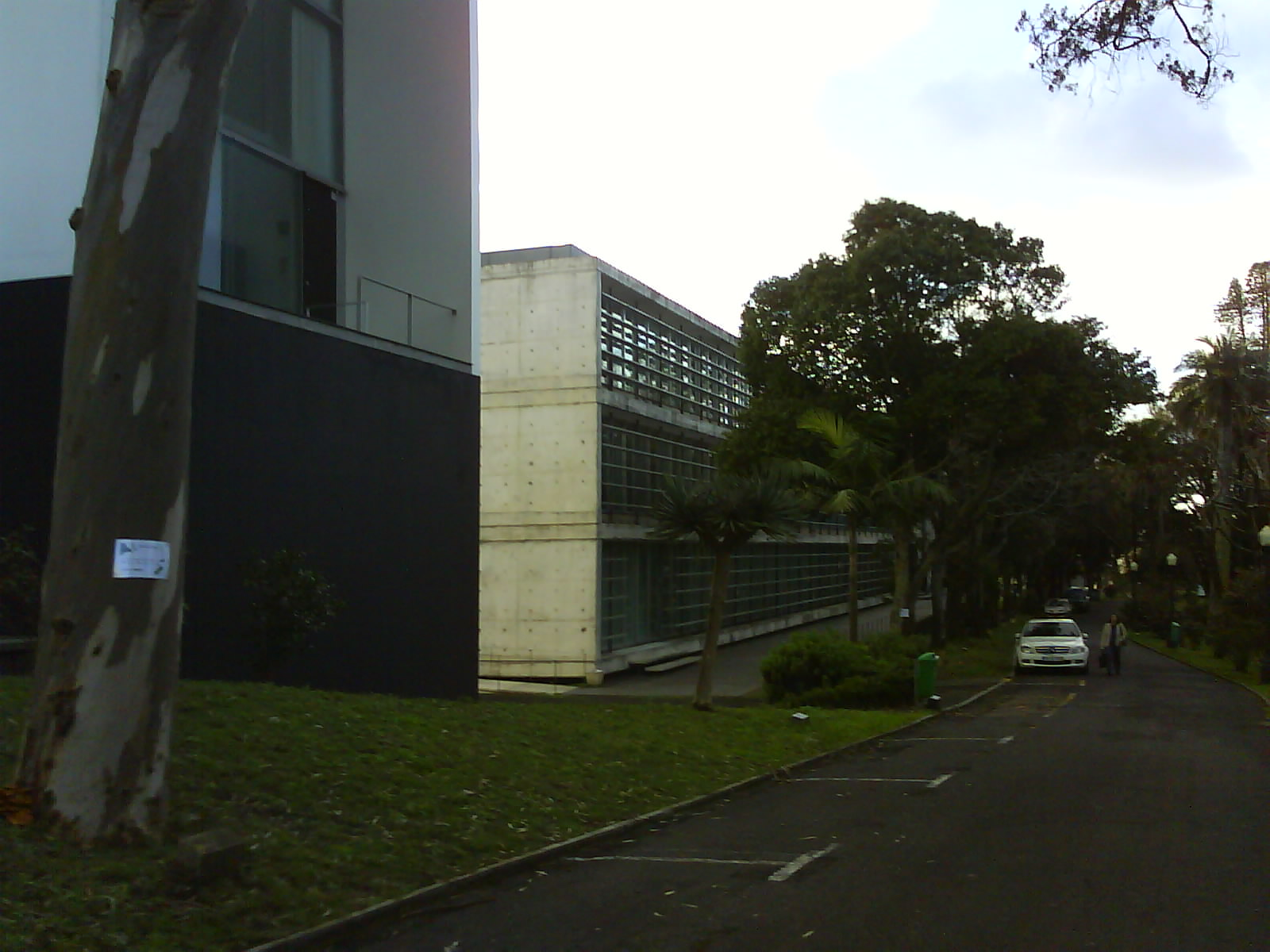 The Science Block at the University of the Azores, civil parish of São Pedro, municipality of Ponta Delgada (Azores), Portugal